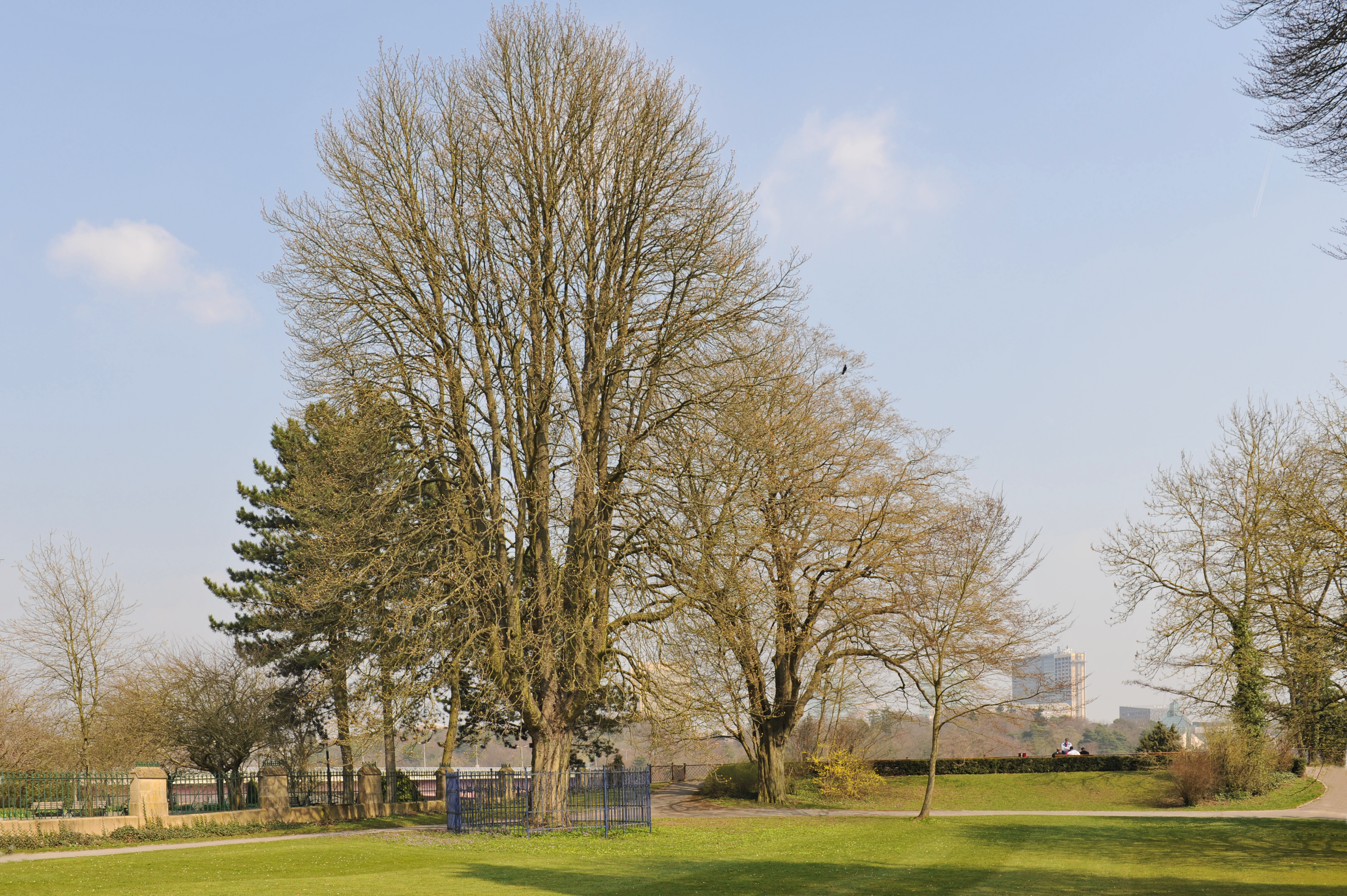 Remarkable tree in Luxembourg city: Arbre du prince Jean in the Pescatore Park.